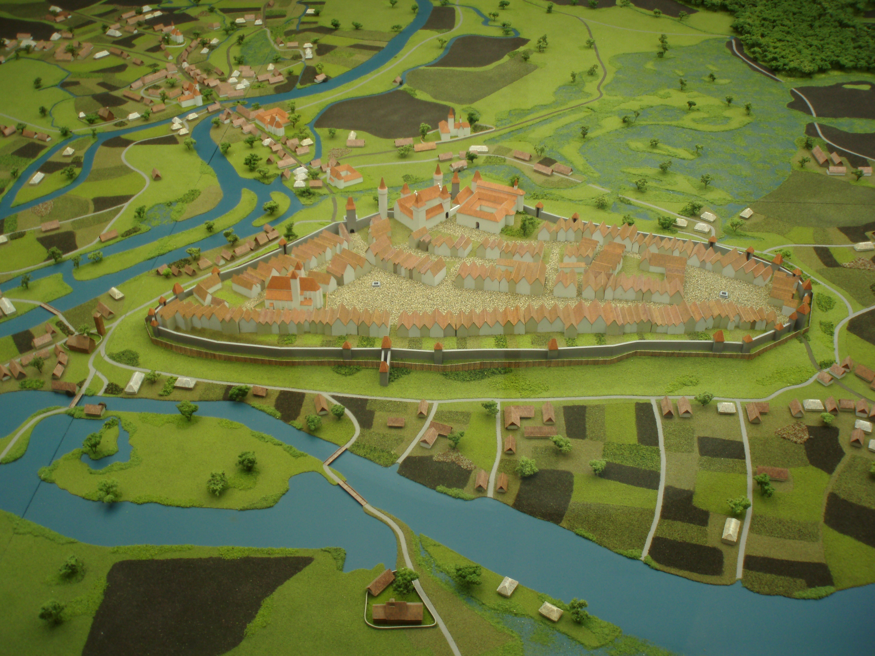 Model of medieval town Hradec Králové